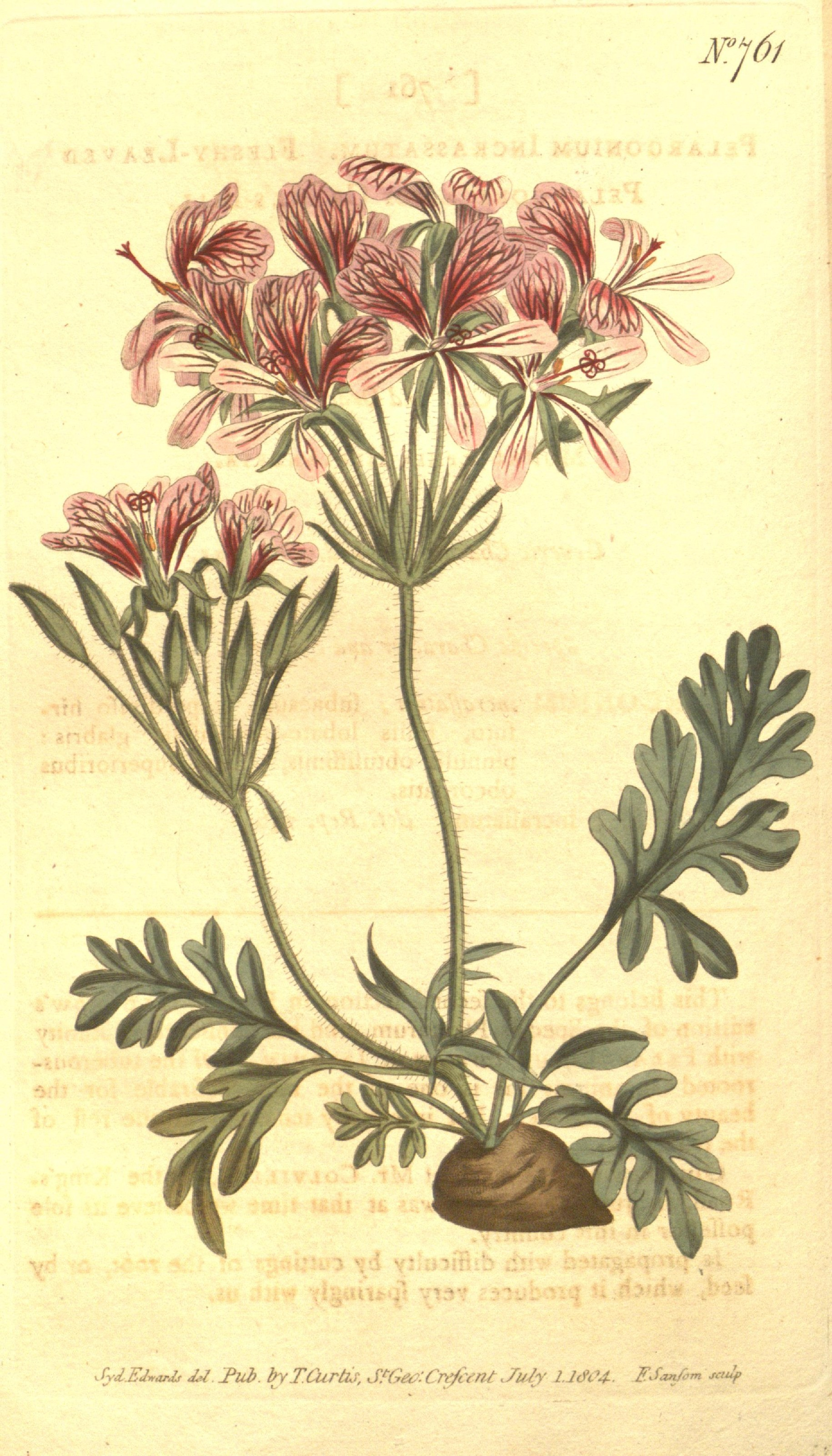 J 0. .6i S?J.EJ*aris JJ fub. bvT.Curti,, SfG&tCrYJccnl July udV4. ESmtfa* **£